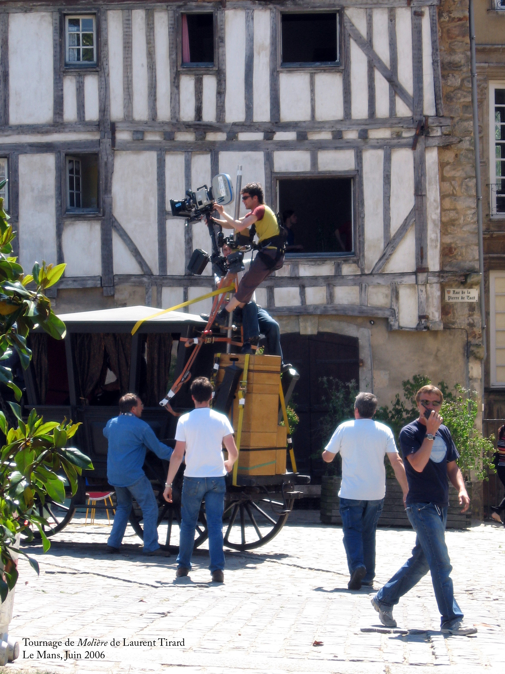 Filming of the film Molière, by Laurent Tirard. Le Mans, June 2006.